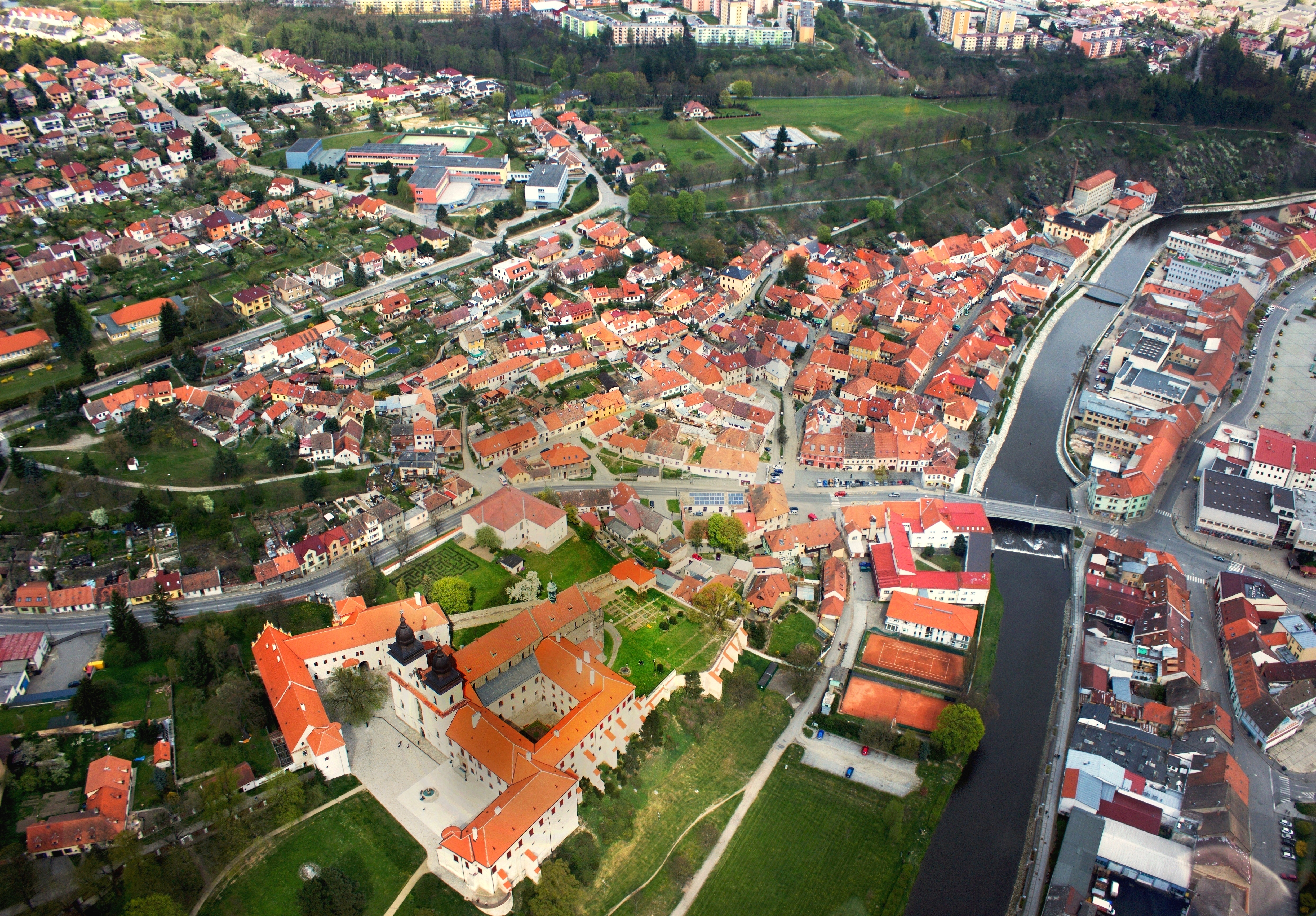 Aerial view of UNESCO sight in Czech town Třebíč